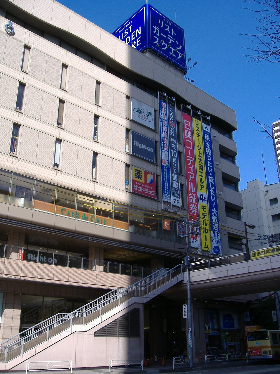 Shoppingmall "List_garden_square" (Yokohama,Japan)